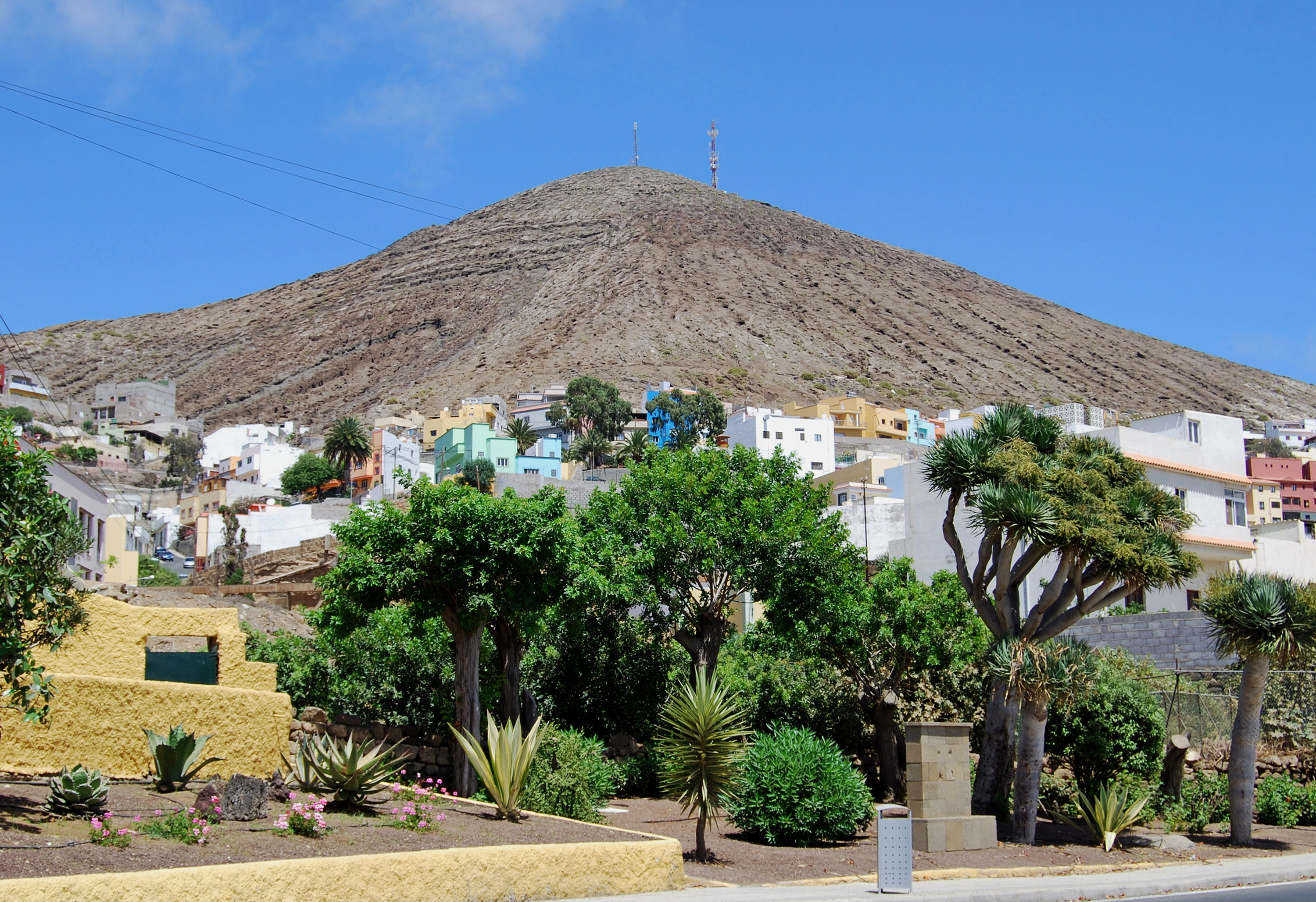 Pico de Gáldar with a part of city Gáldar, Gran Canaria.